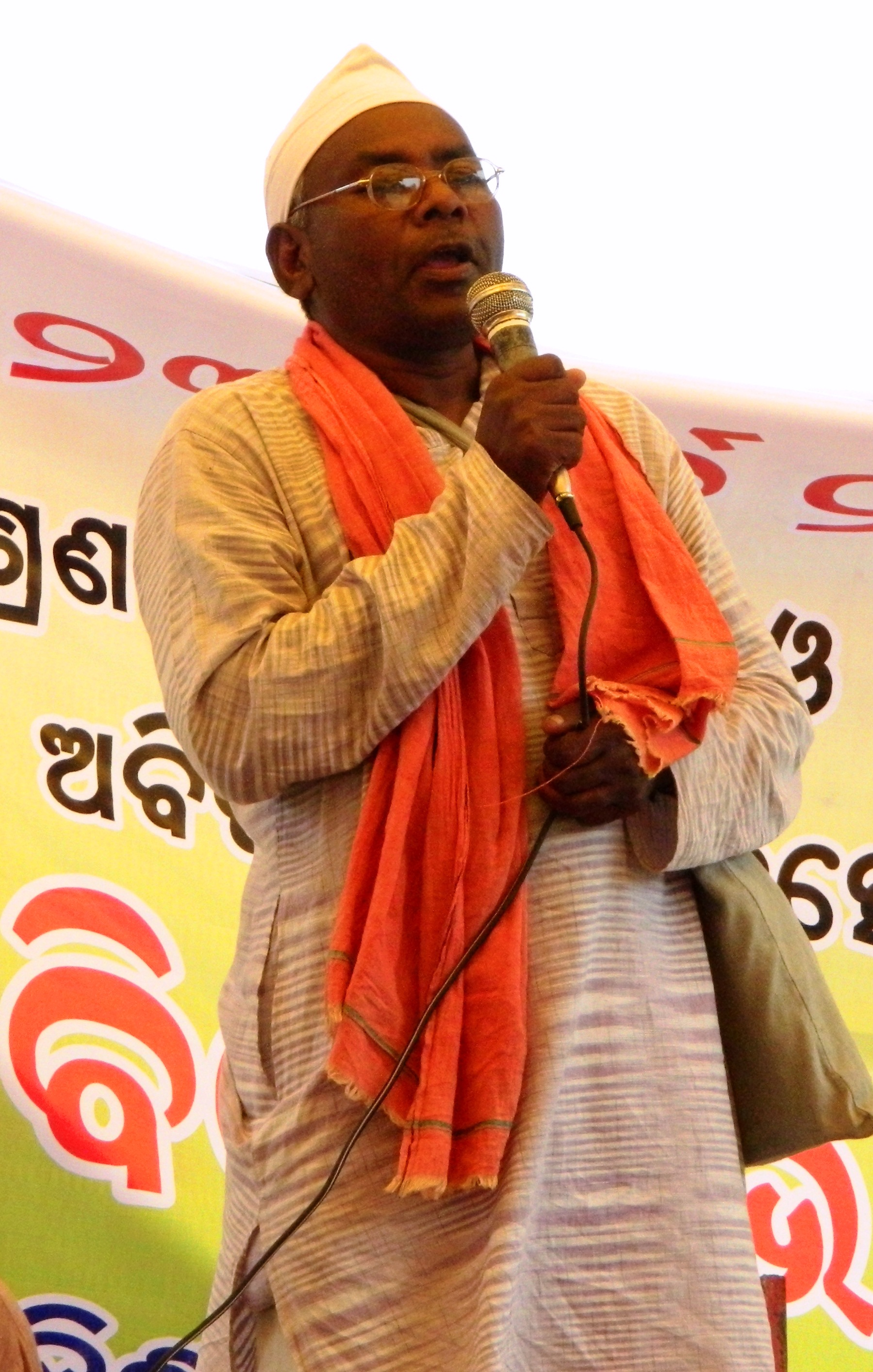 Lingaraj Azad speaking in a public function. He is a tribal leader of the tribals movement against the mining company Vedanta